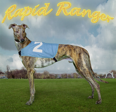 Rapid Ranger Greyhound Derby Winner by Gideon Hart / 1shot Photography London Photographers